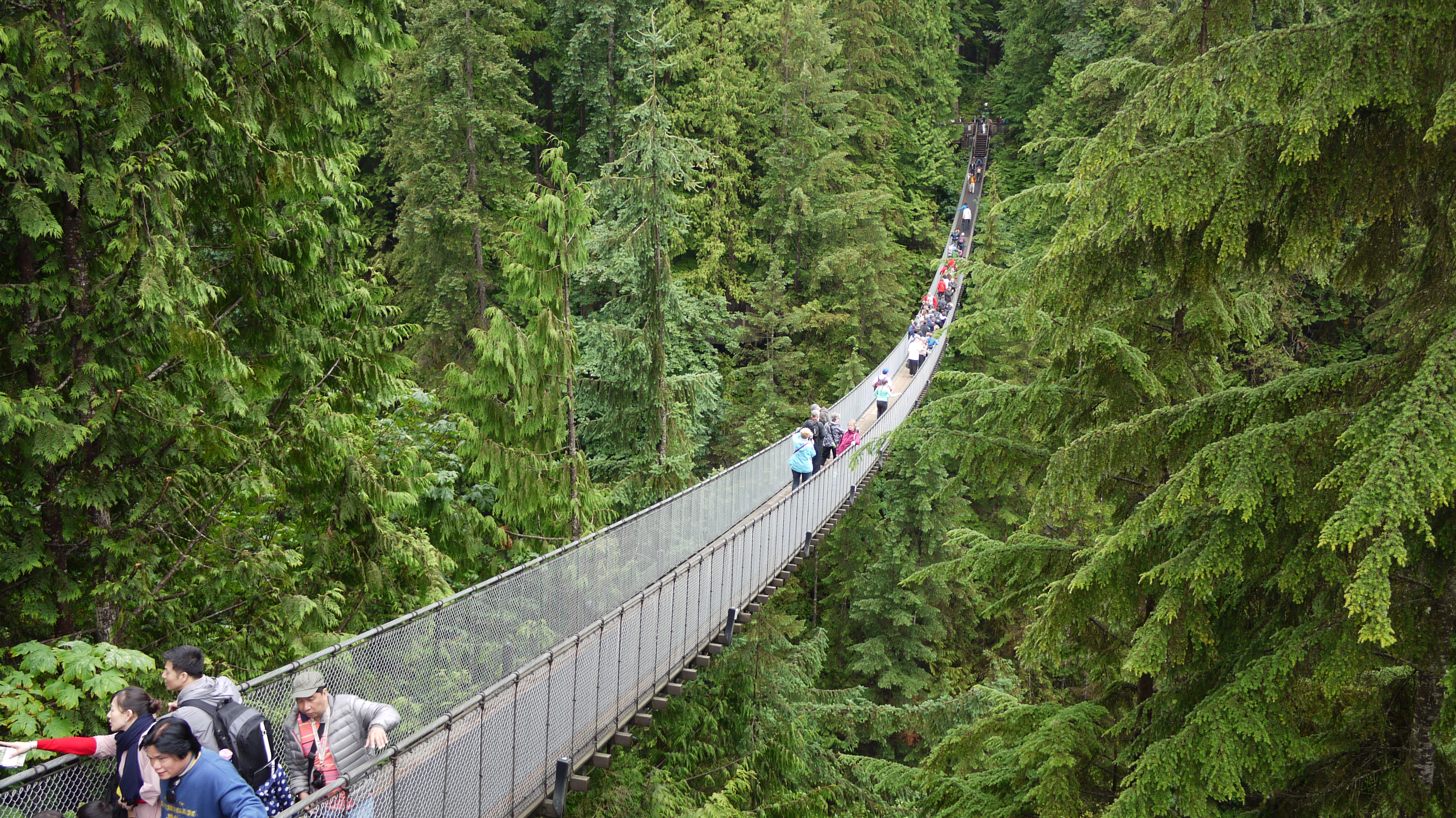 Capilano Suspension Bridge in Vancouver, Canada. Photographed in July 2016.